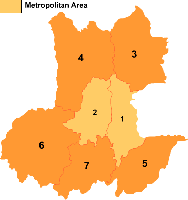 Map of Lu'an in Anhui province.